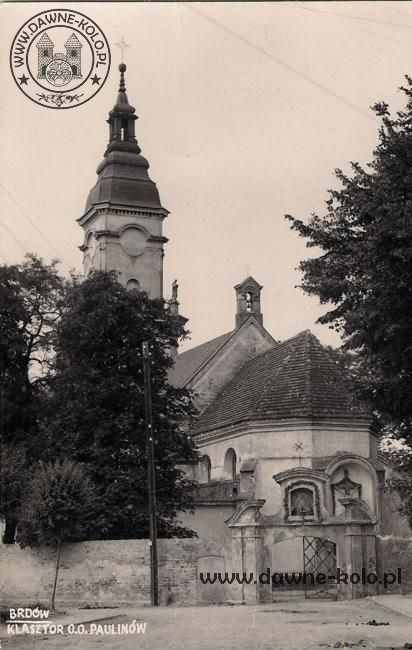 Church in Brdów